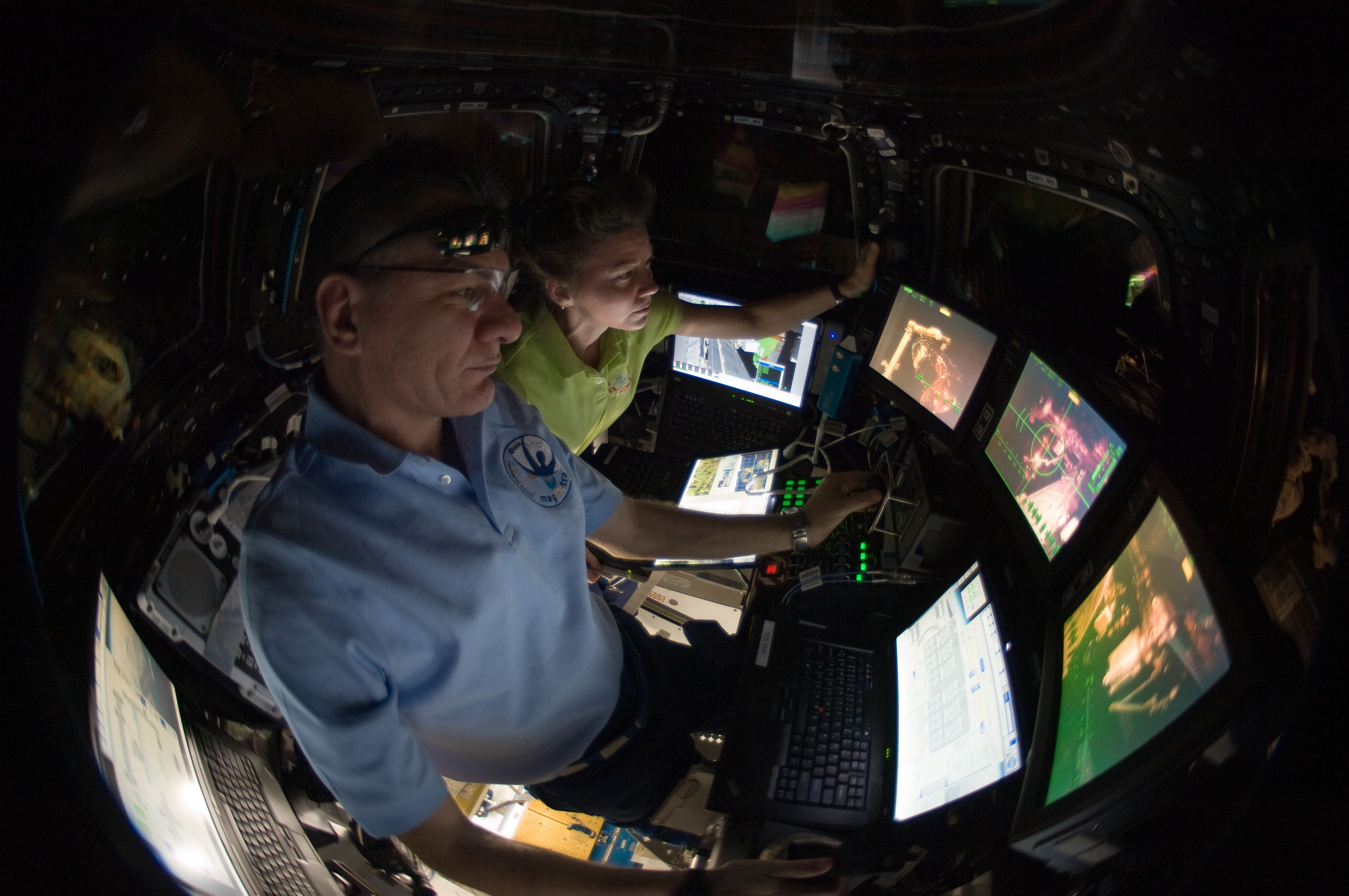 ESA Astronaut Paolo Nespoli moves White Stork spaceship to a different docking port. cropped from public domain image. Original description: European Space Agency astronaut Paolo Nespoli and NASA astronaut Catherine (Cady) Coleman, both Expedition 26 flight engineers, operate the Canadarm2 controls inside the International Space Station's Cupola to relocate the Japanese Kounotori2 H-II Transfer Vehicle (HTV2) from the Harmony node nadir port to Harmony's zenith port.